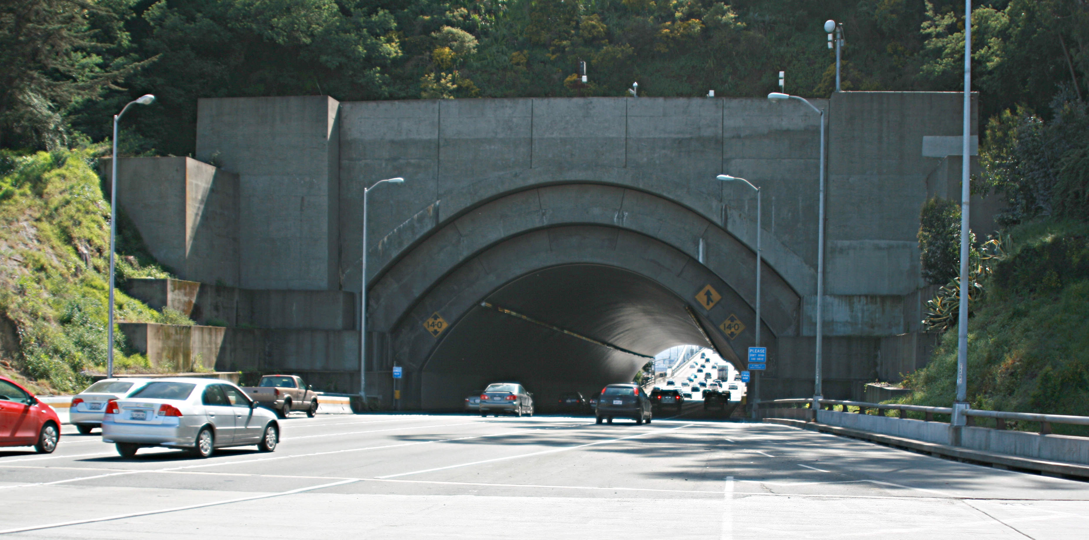 San Francisco-Oakland Bay Bridge from eastern span replacement transition structure showing eastern entrance portal of the Yerba Buena Island tunnel, upper deck westbound.